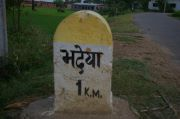 reaching bhadeya